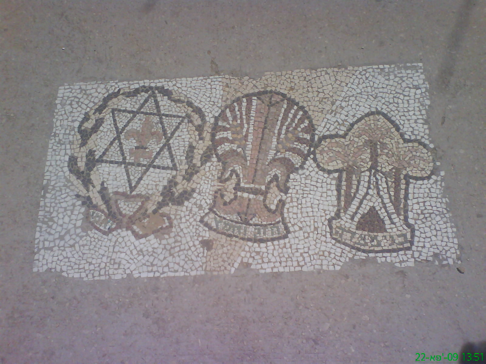 Symbols of "Hashomer Hatzair" on the floor of "Shikma" high school in Yad Mordechai Kibutz. Written in Hebrew on the right symbol: "Bney Mtzda" (Sons of Mesada), and on the other symbols "Hazak Ve'Ematz" (strong and courageous).